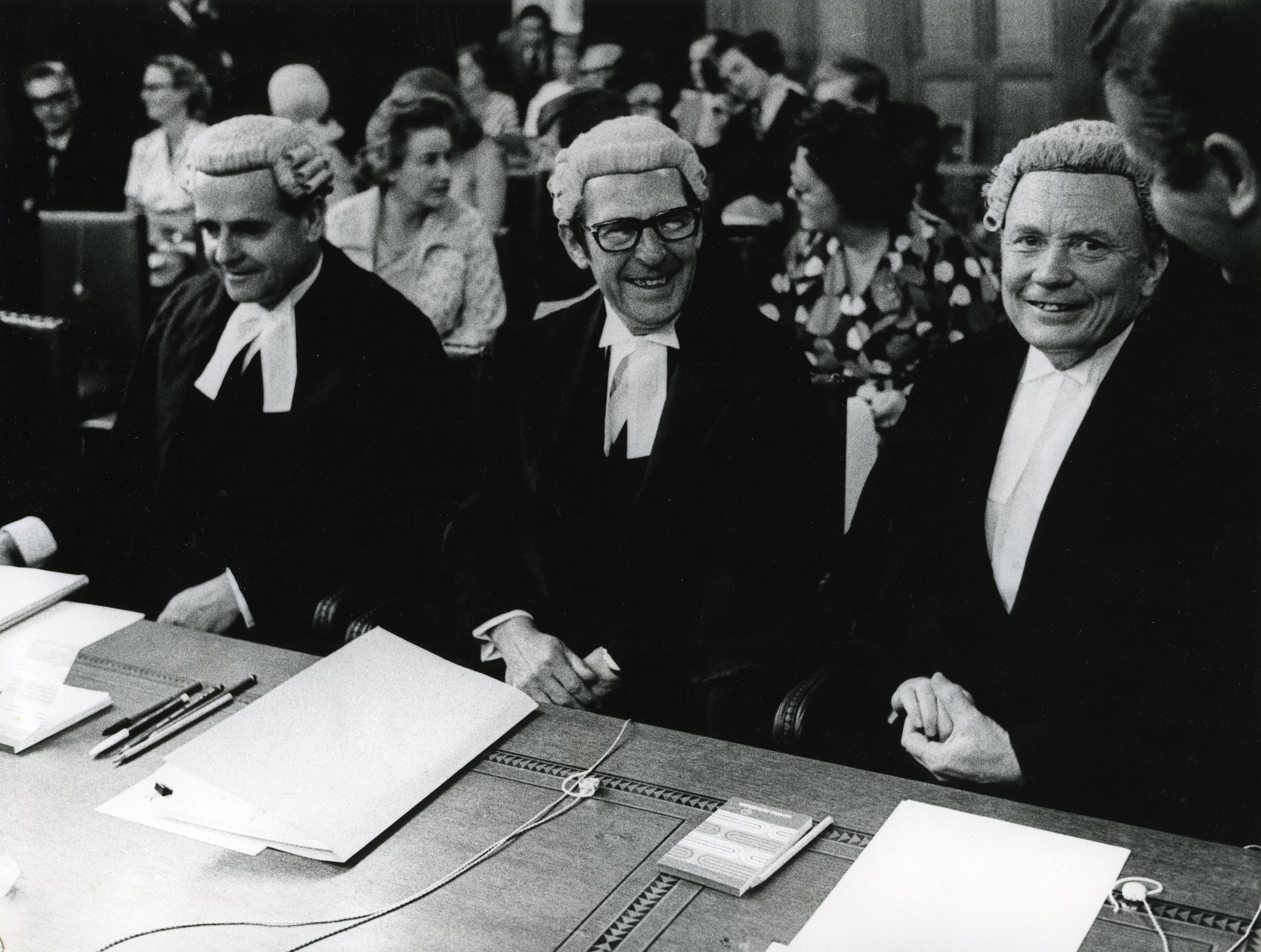 New Zealand Representatives at the International Court of Justice in the Hague, 1973. From left to right: Solicitor General R. C. Savage, Attorney General Hon. Dr Martyn Finlay, Mr R.Q. Quentin Baxter.